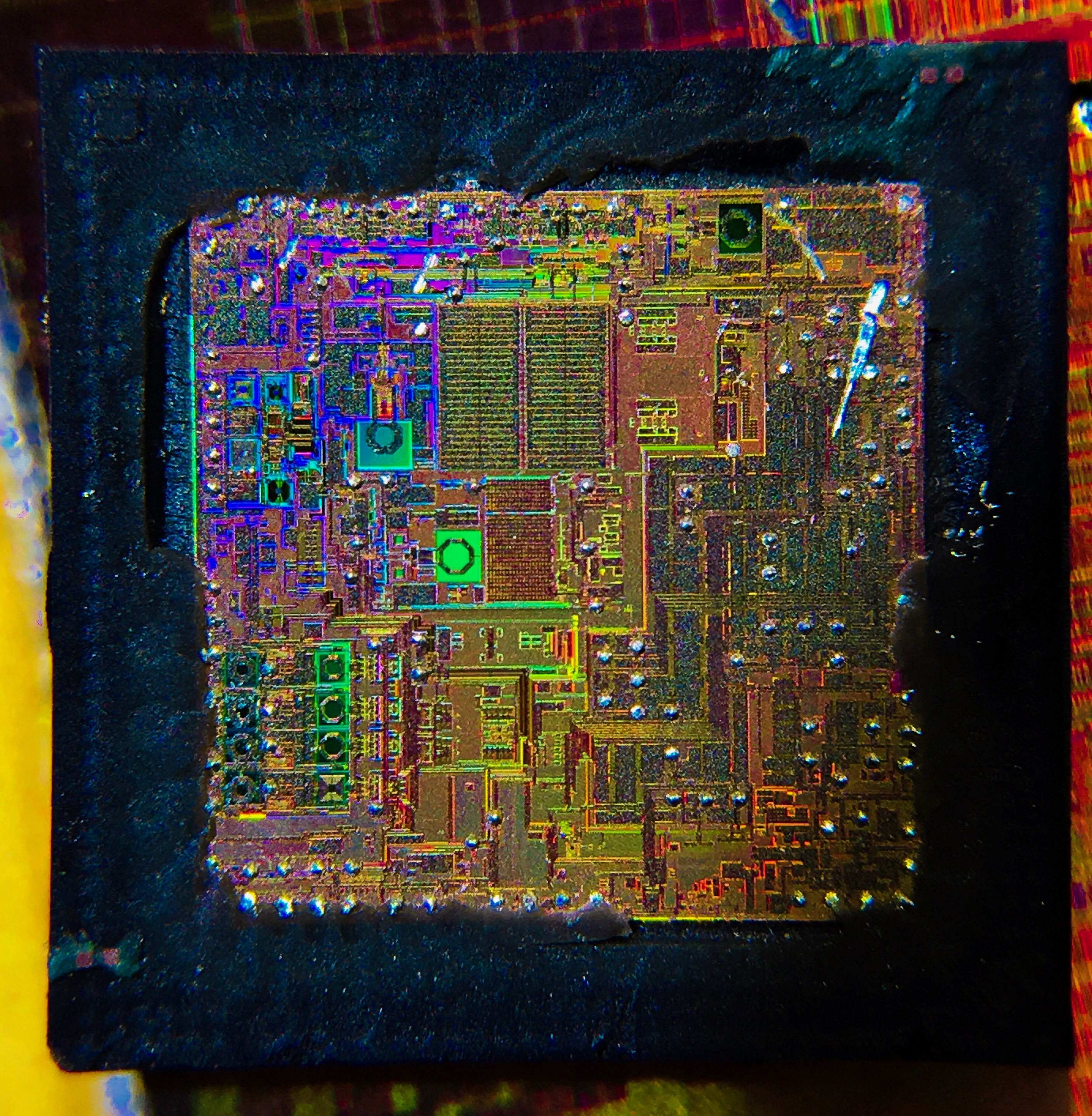 Infineon transceiver IC die shot. used in several transmitters and hand held computers.